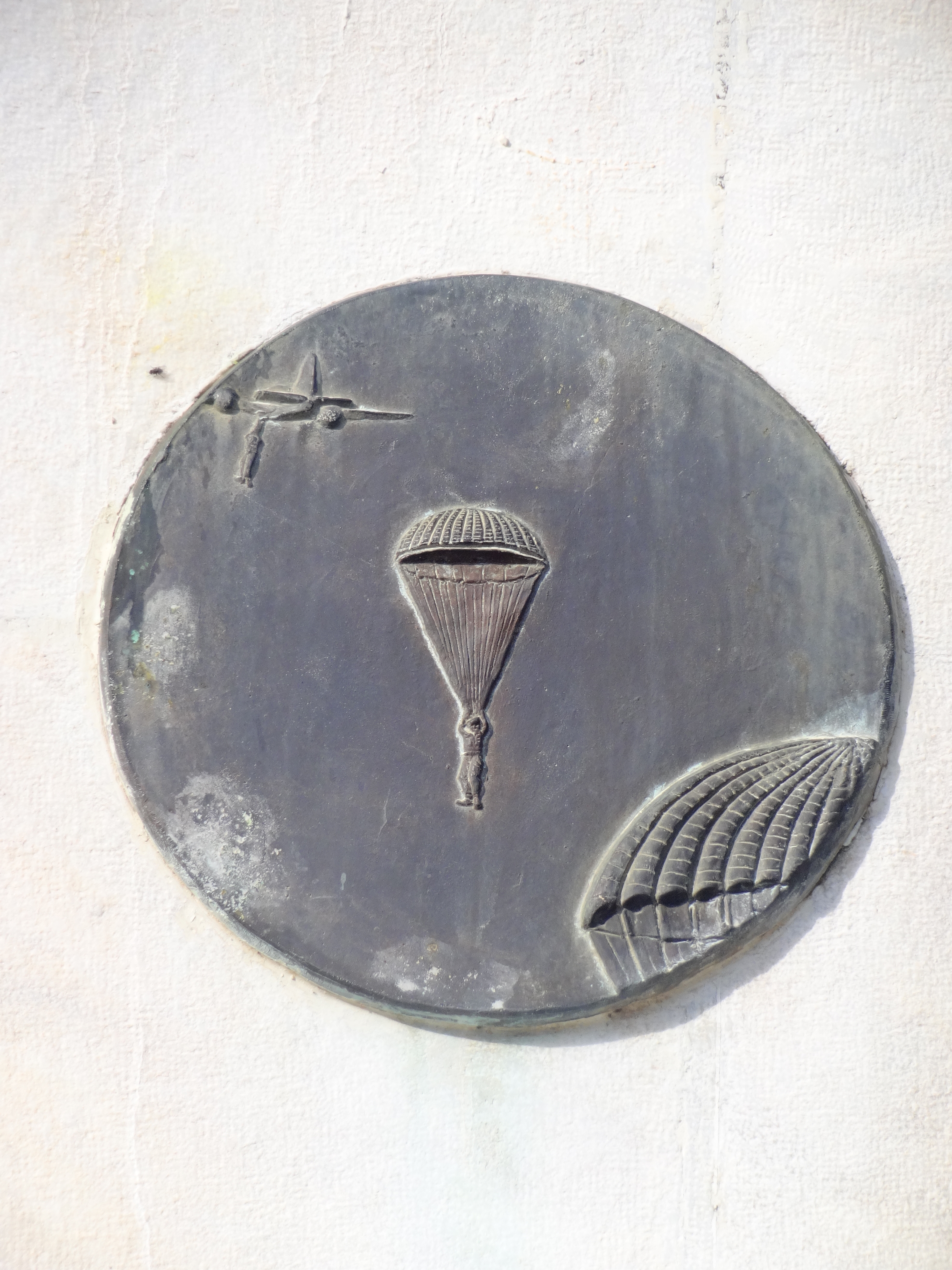 Fragment on the Monument of Sacred Band (World War II) in Athens, Greece